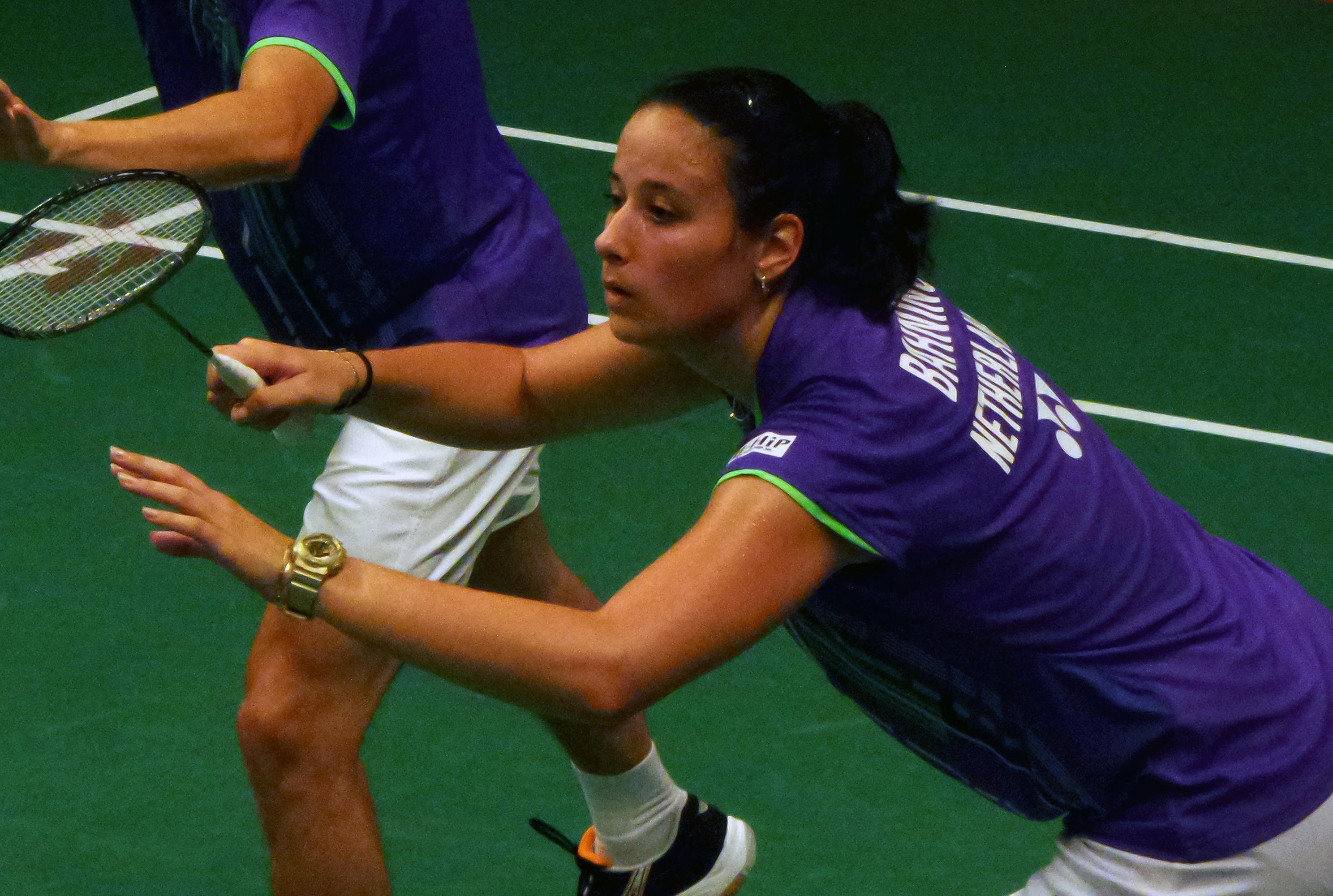 中文（香港）: This picture is cropped from File:TOTAL_BWF_World_Champs_2015_Day_2_Jorrit_de_Ruiter_-_Samantha_Barning.jpg by Griff88.